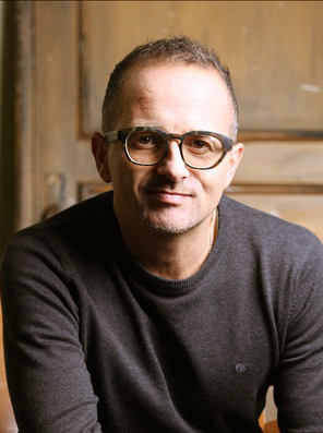 Gianluca Ansnaelli